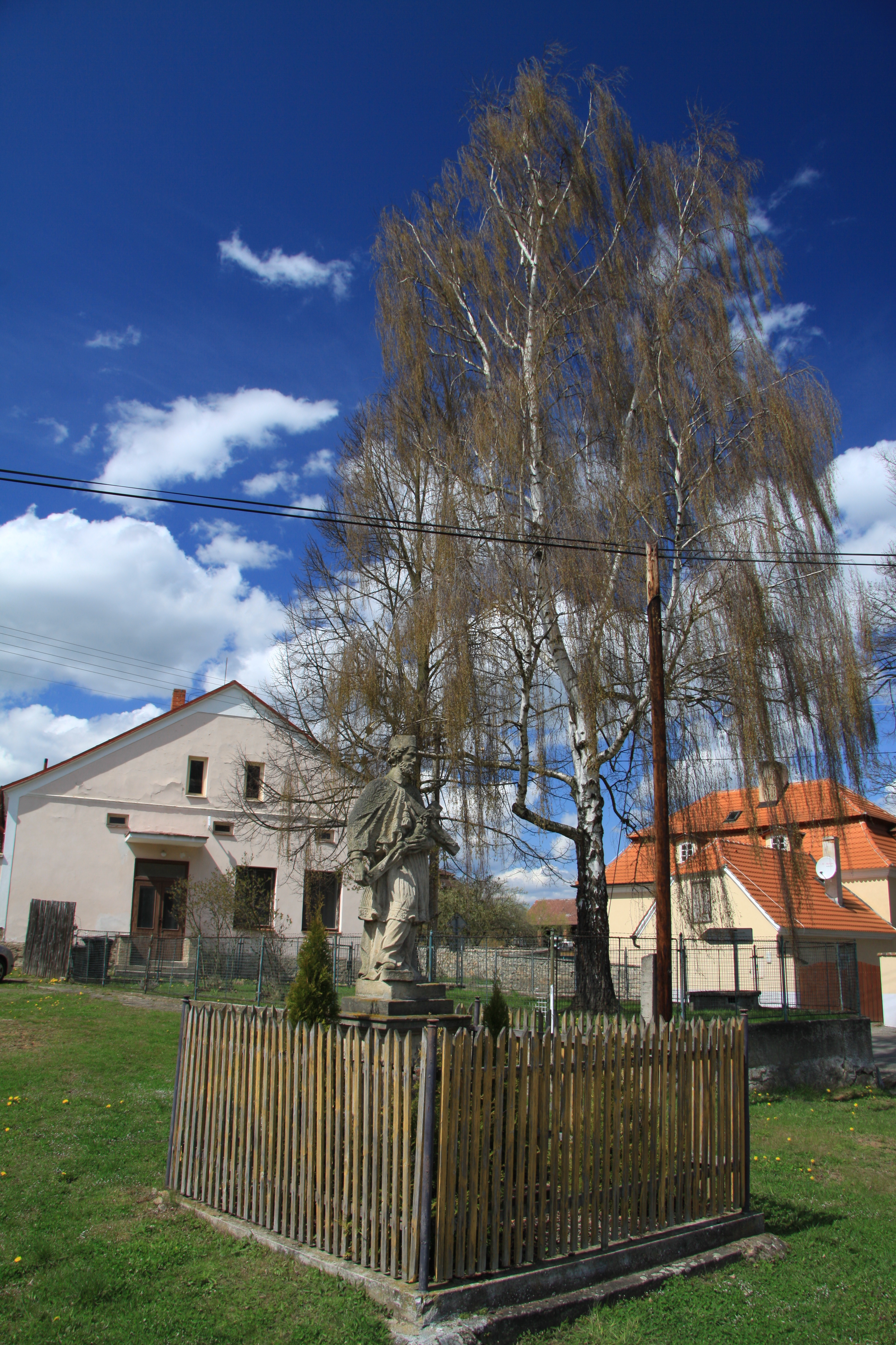 Statue in Smolotely village in Příbram District, Czech Republic